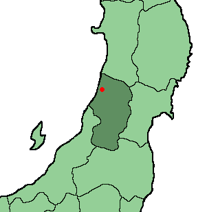 Map of "Inaho" special express No.14.